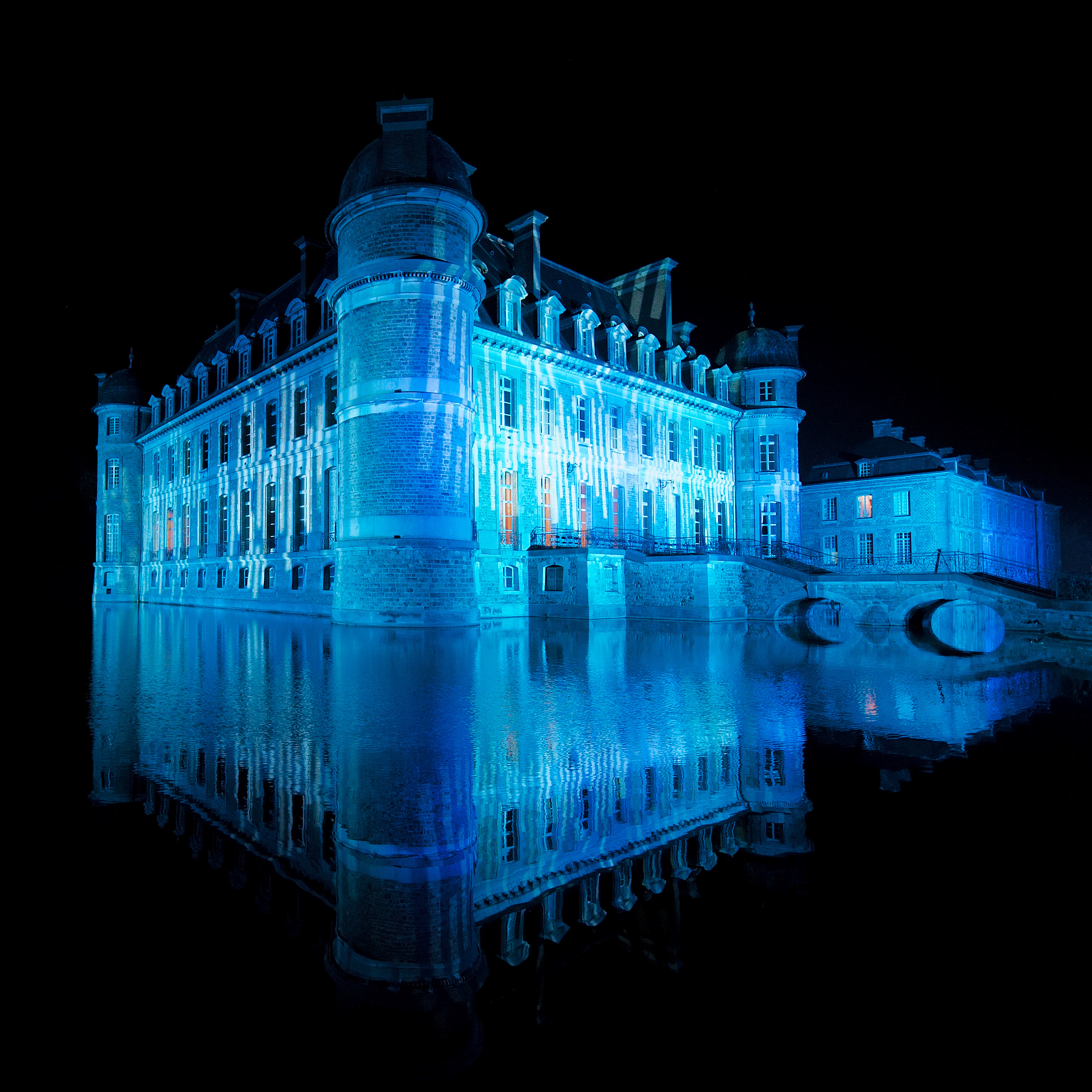 Belœil Castle by night Česky: Noční snímek belgického zámku Château de Belœil